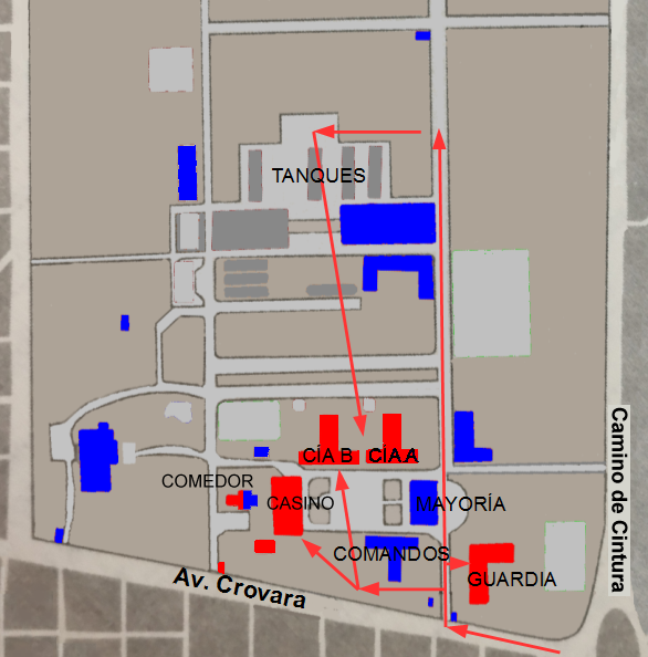 Copamiento al Cuartel de La Tablada. Argentina. 23 de enero de 1989. Movimientos y posiciones en la mañana del 23 de enero. En azul las tropas defensoras (Ejército) del cuartel. En rojo las tropas atacantes (MTP).